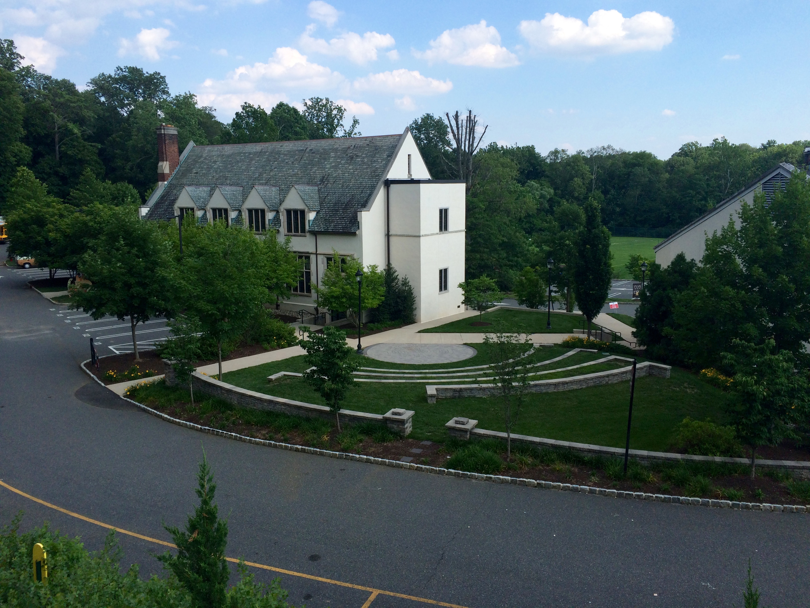 The fine arts building of the Hun School of Princeton in Princeton, New Jersey.